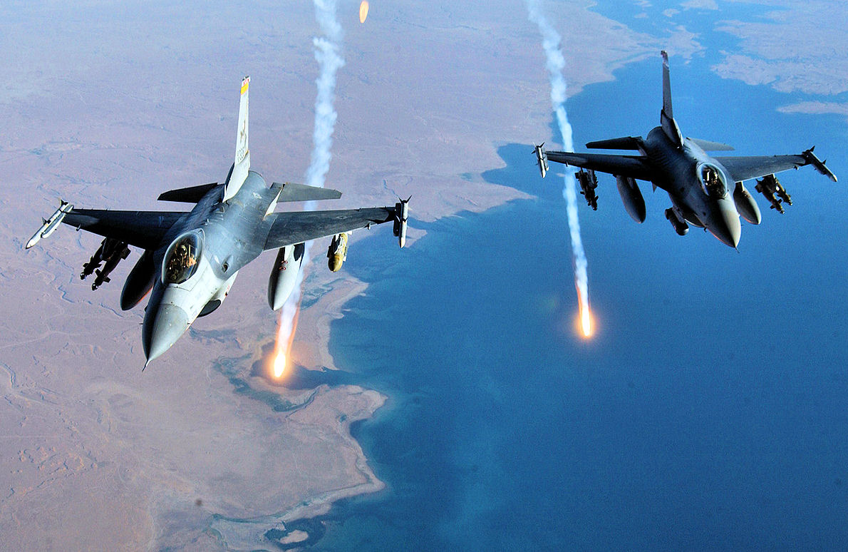 A pair of F-16 Fighting Falcons launch flares during a mission Aug. 18. The aircraft are assigned to the 332nd Air Expeditionary Wing at Balad Air Base, Iraq, from the New Mexico Air National Guard. (U.S. Air Force photo by Tech. Sgt. Scott Reed)